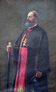 Demetriu Radu (1861–1920), Bishop of the Diocese of Lugoj of the Romanian Greek Catholic Church from 1896 to 1903, Bishop of the Diocese of Oradea Mare of the Romanian Greek Catholic Church from 1903 to 1920.